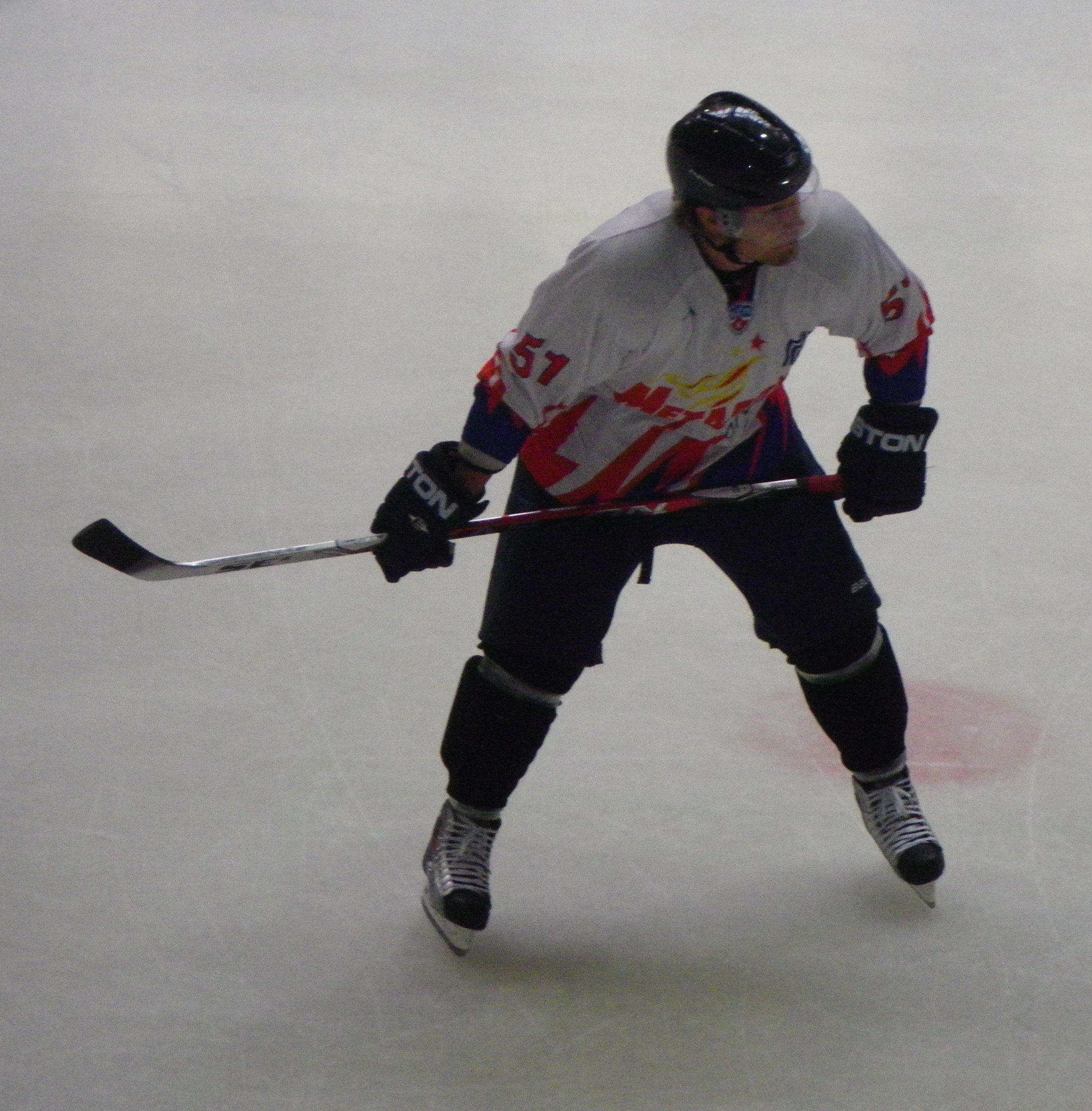 Mika Hannula, swedish ice hockey player with Metallurg Magnitogorsk